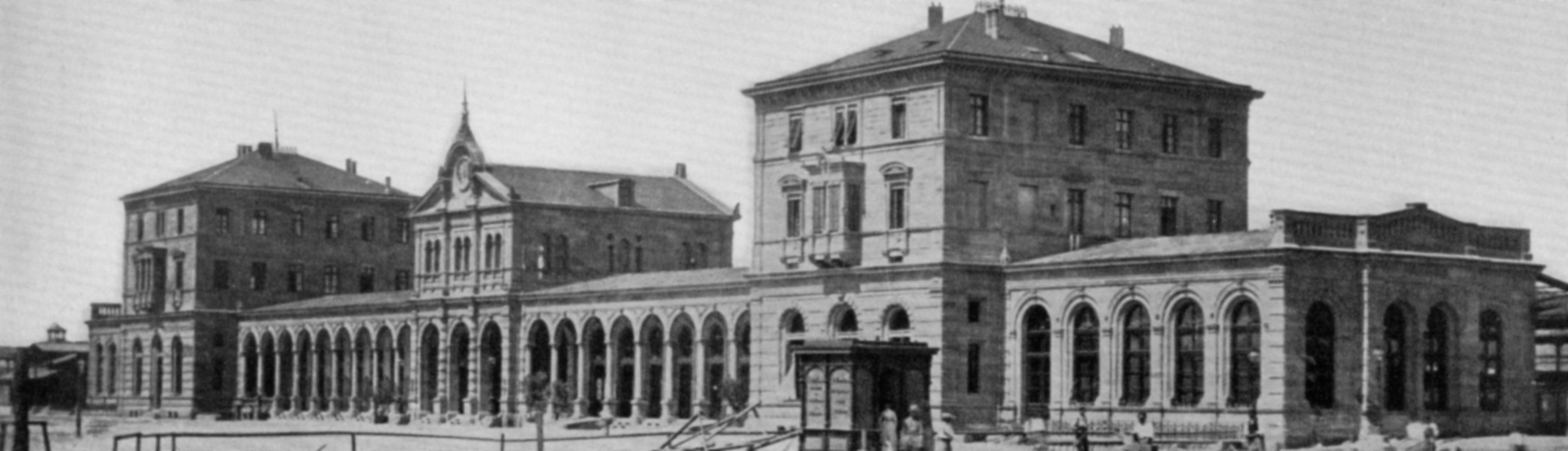 Heilbronn’s central train station in 1873